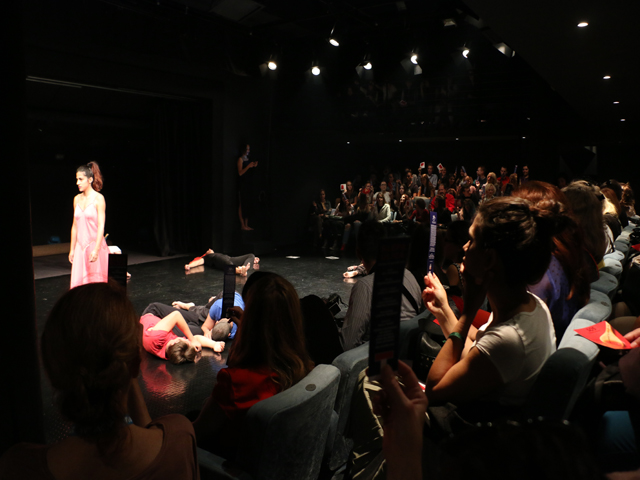 Belgrade 2016